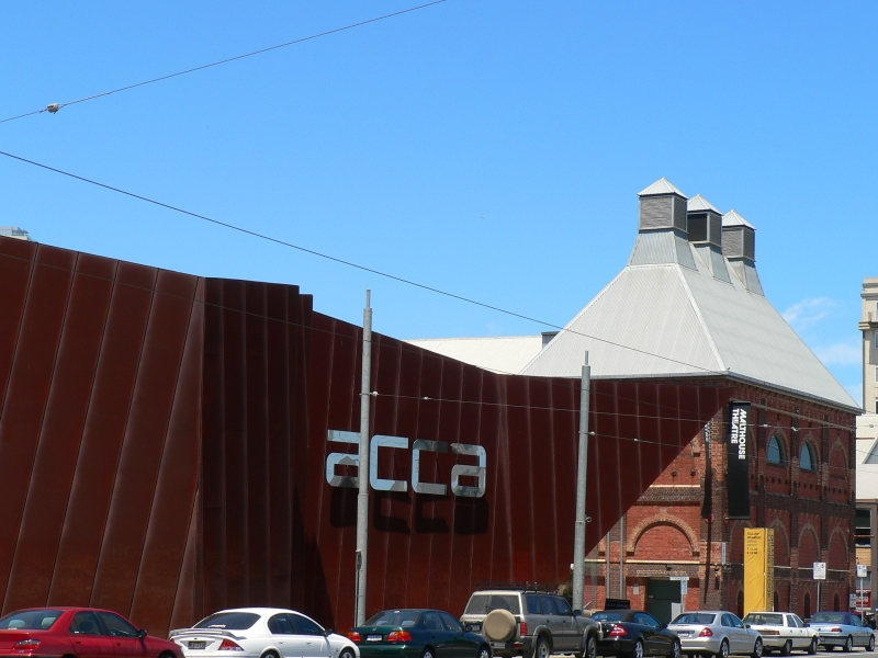 Australian Centre for Contemporary Art and Malthouse Theatre. Southbank, Melbourne.